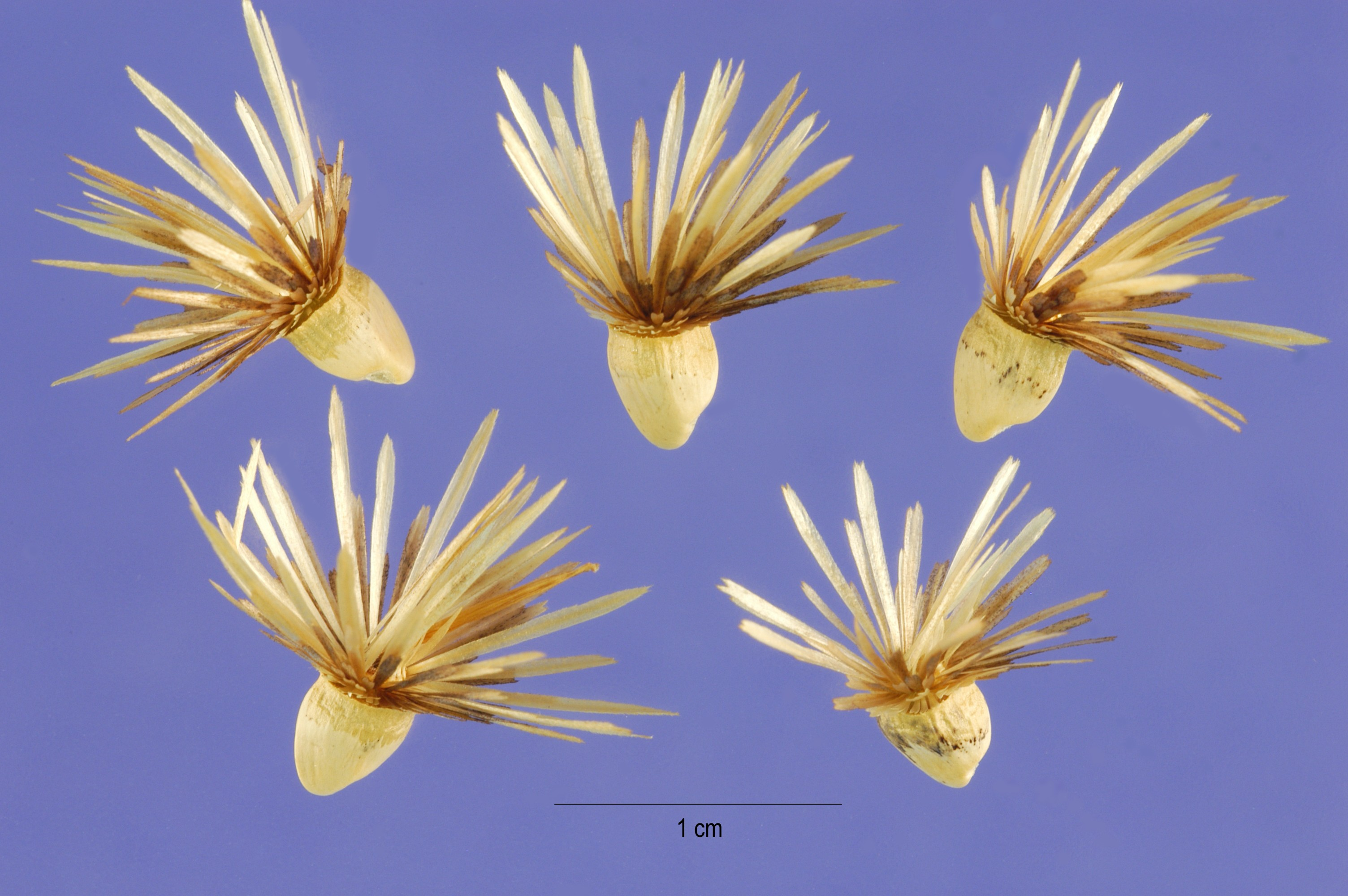 Carthamus lanatus from Steve Hurst. Provided by ARS Systematic Botany and Mycology Laboratory. Afghanistan.